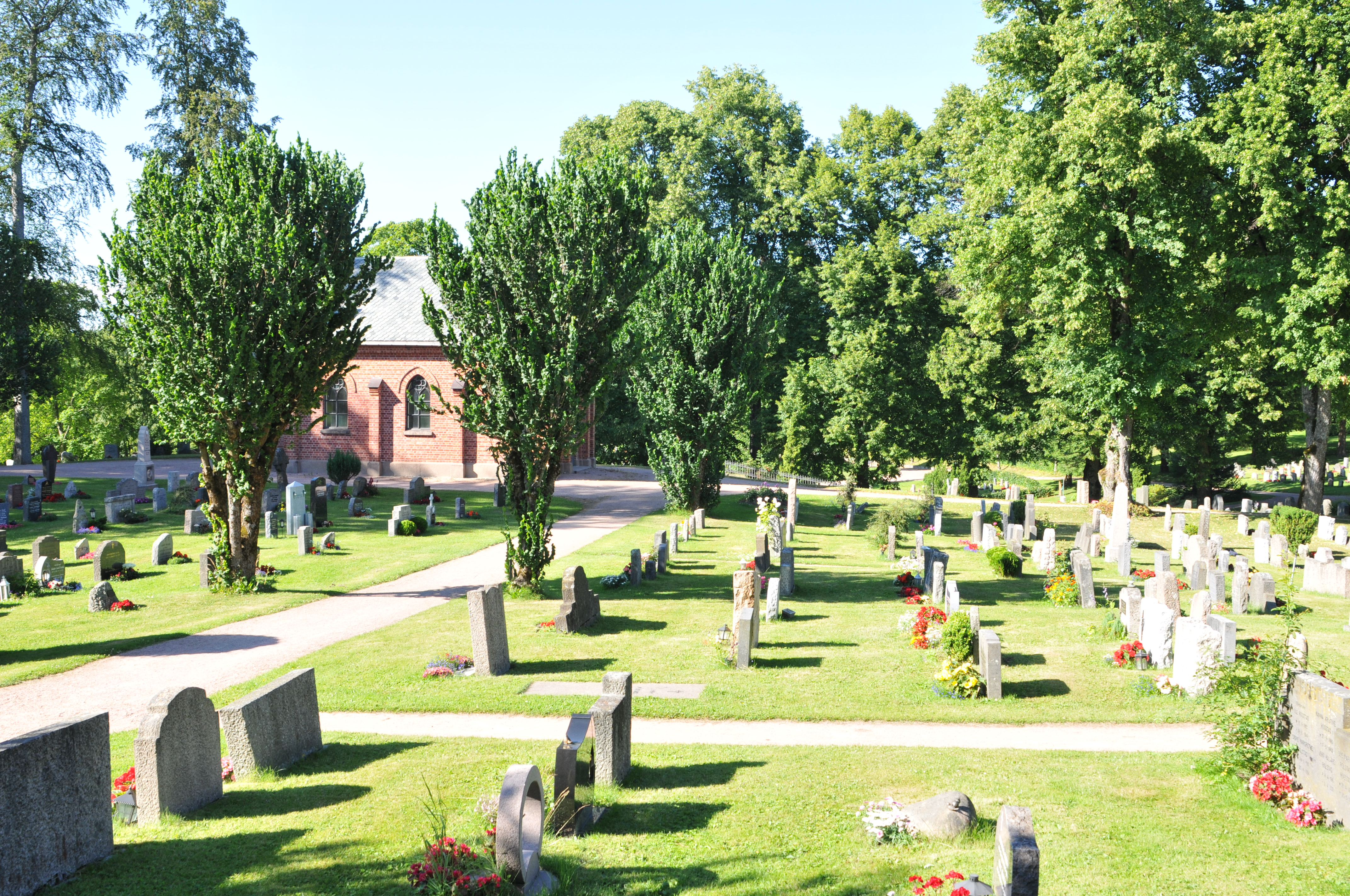 Asker Cemetary, Asker, NorwayNorsk bokmål: Asker kirkegård, Asker, Norge